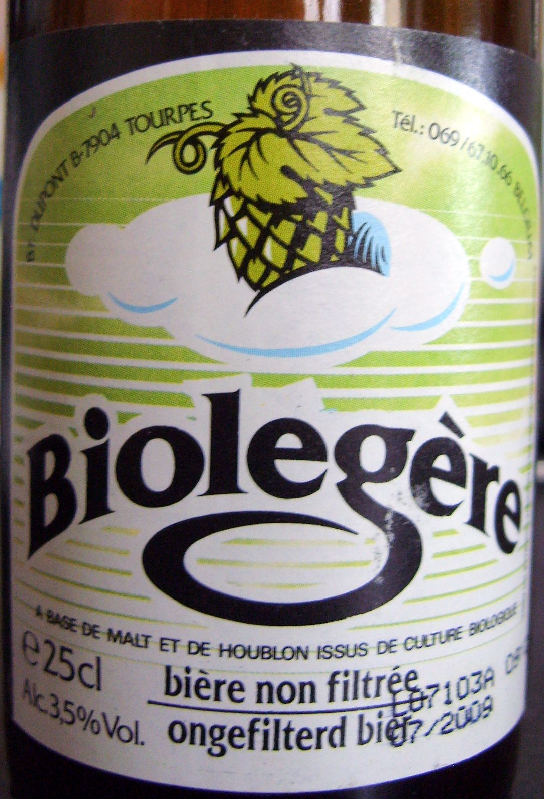 Photo of a bottle of Saison